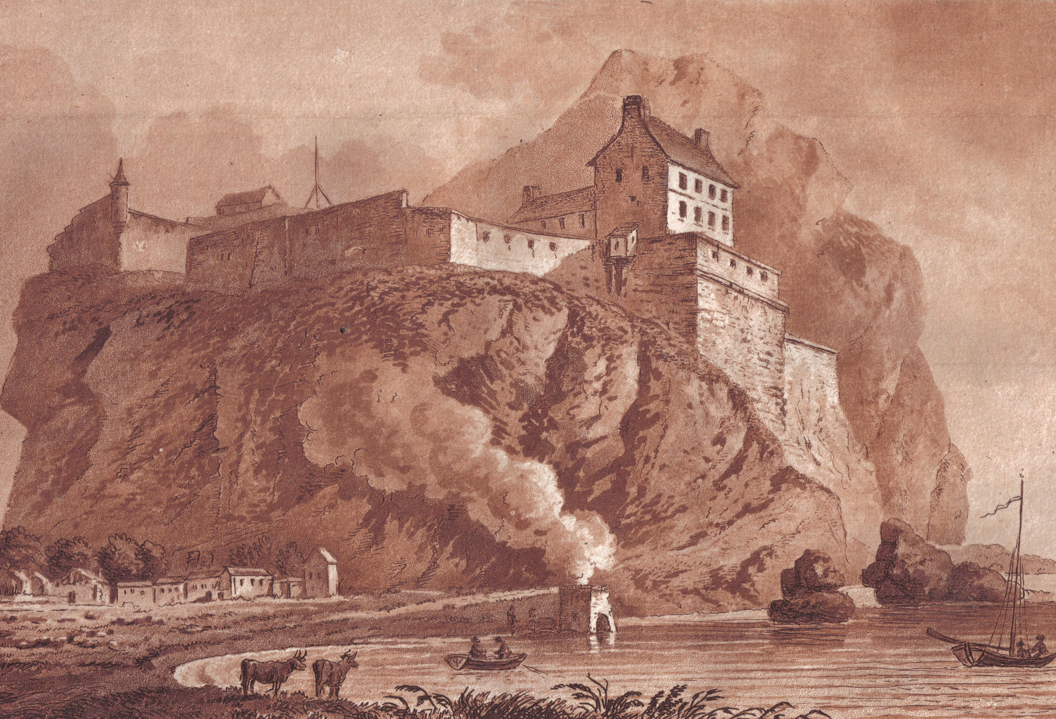 Dumbarton rock, castle, lime kiln and the clyde